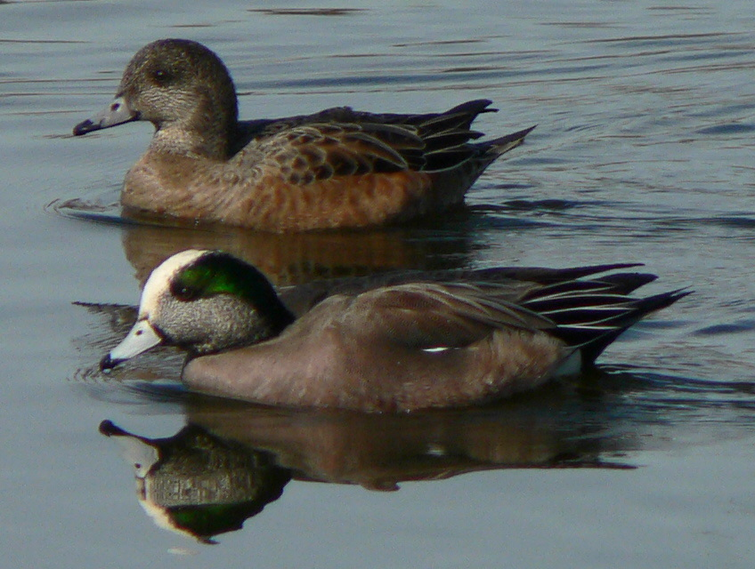 American Wigeon